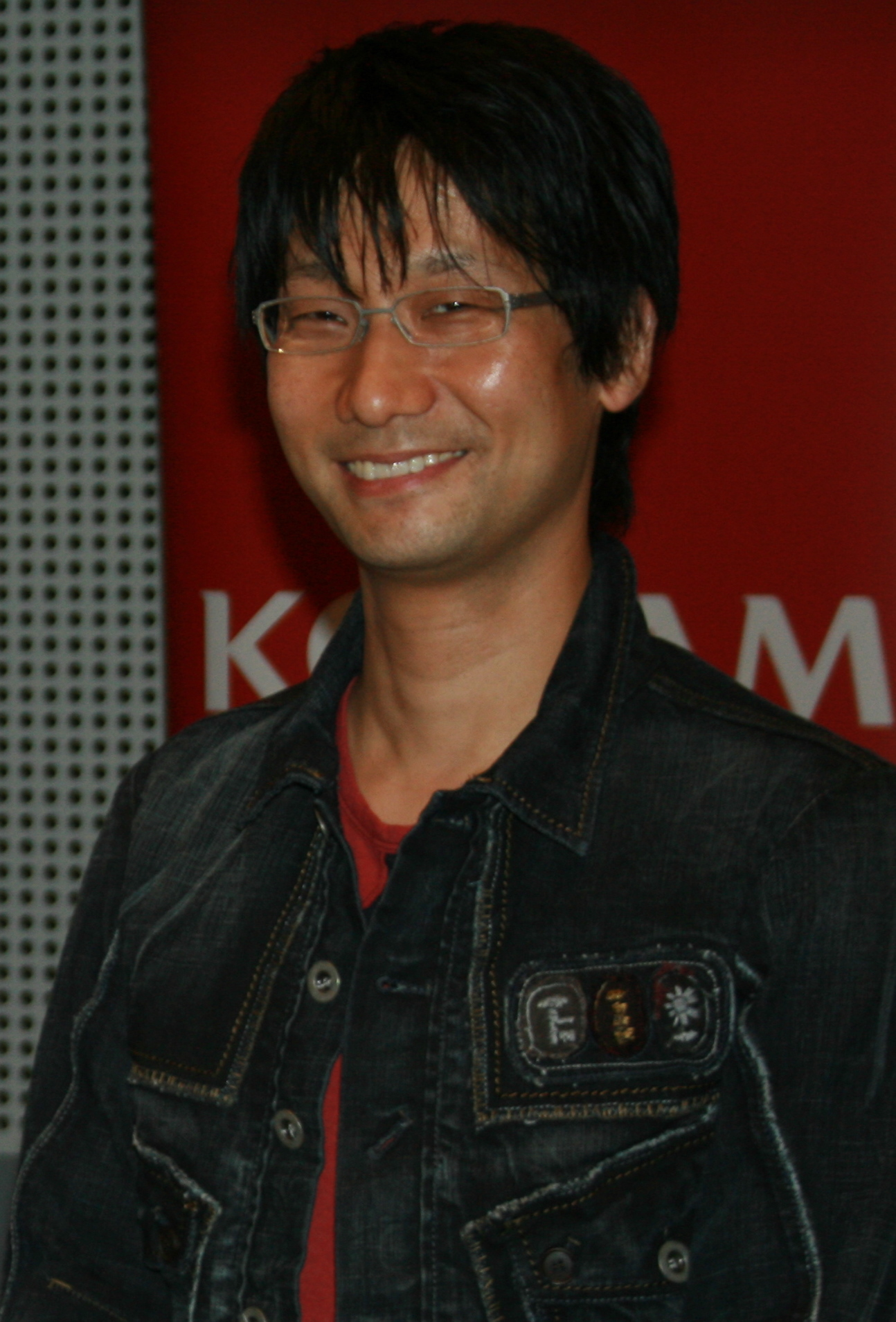 Cropped version of [1].